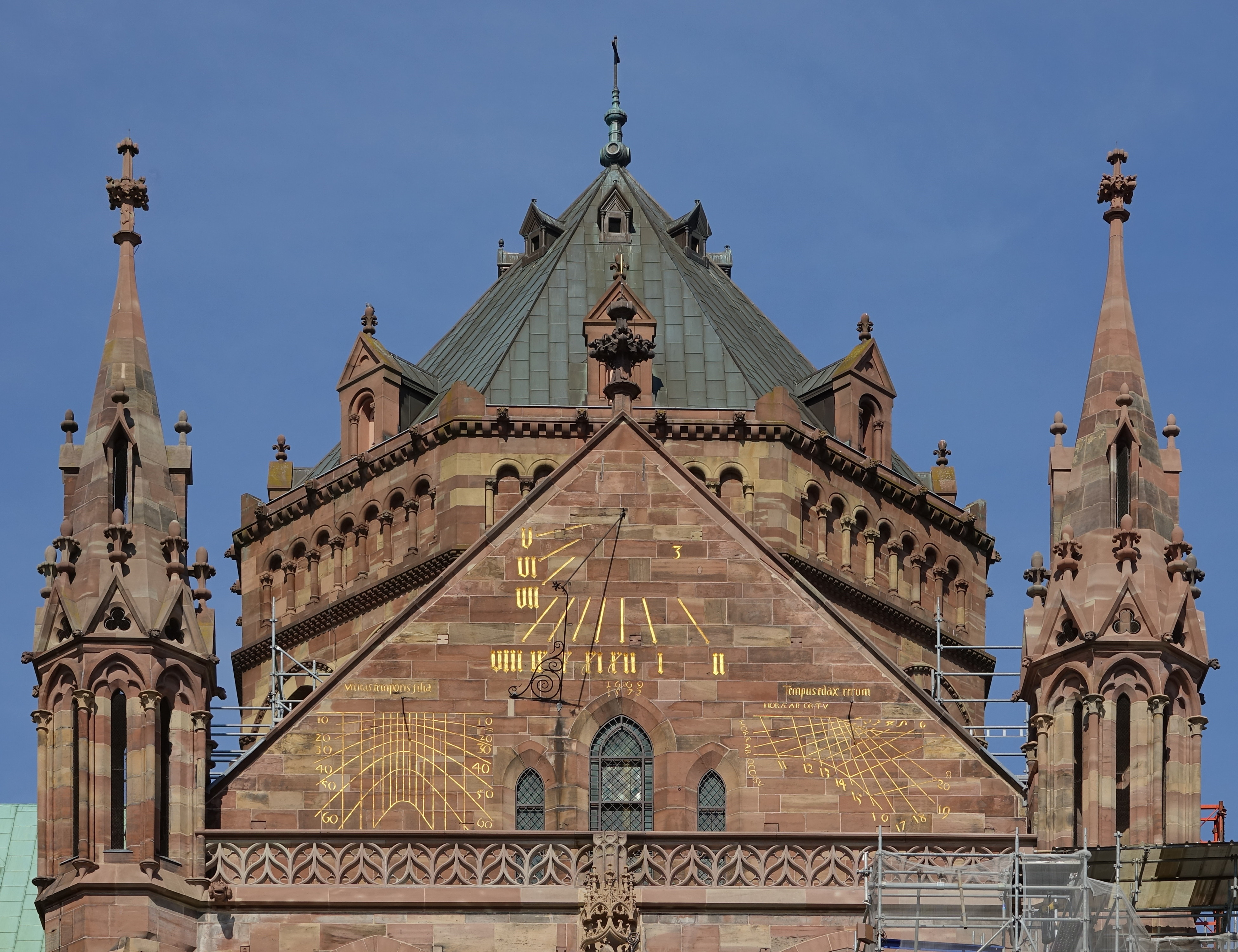 Sundial of Notre-Dame cathedral of Strasbourg (Bas-Rhin, France).